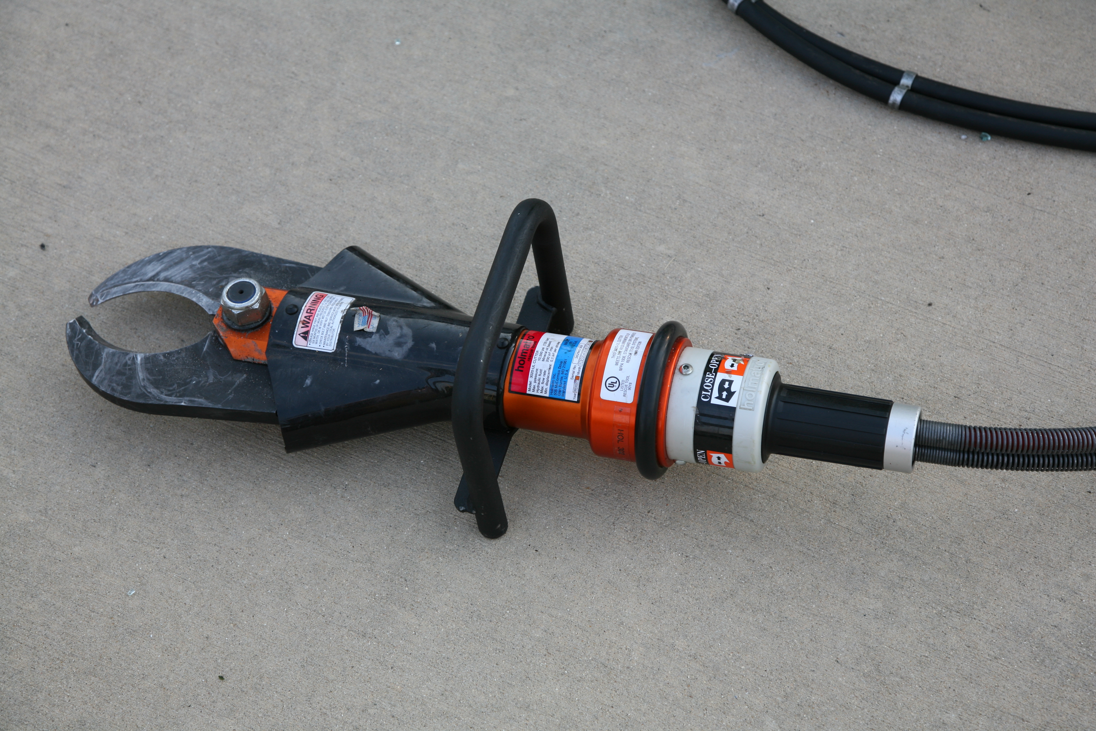 Hydraulic cutter